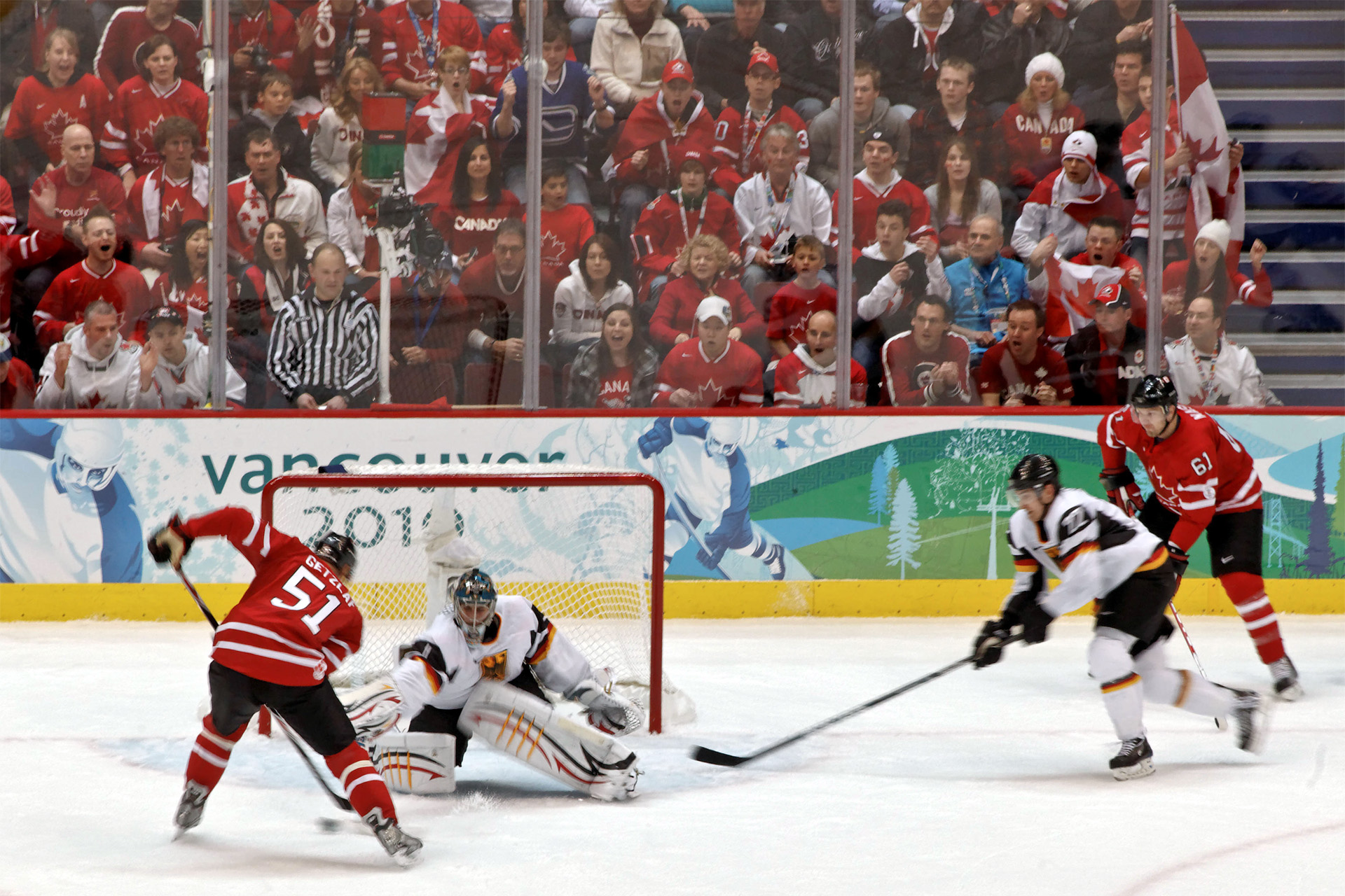 Germany goaltender Thomas Greiss makes a save on Canada forward Ryan Getzlaf during the 2010 Winter Olympics.